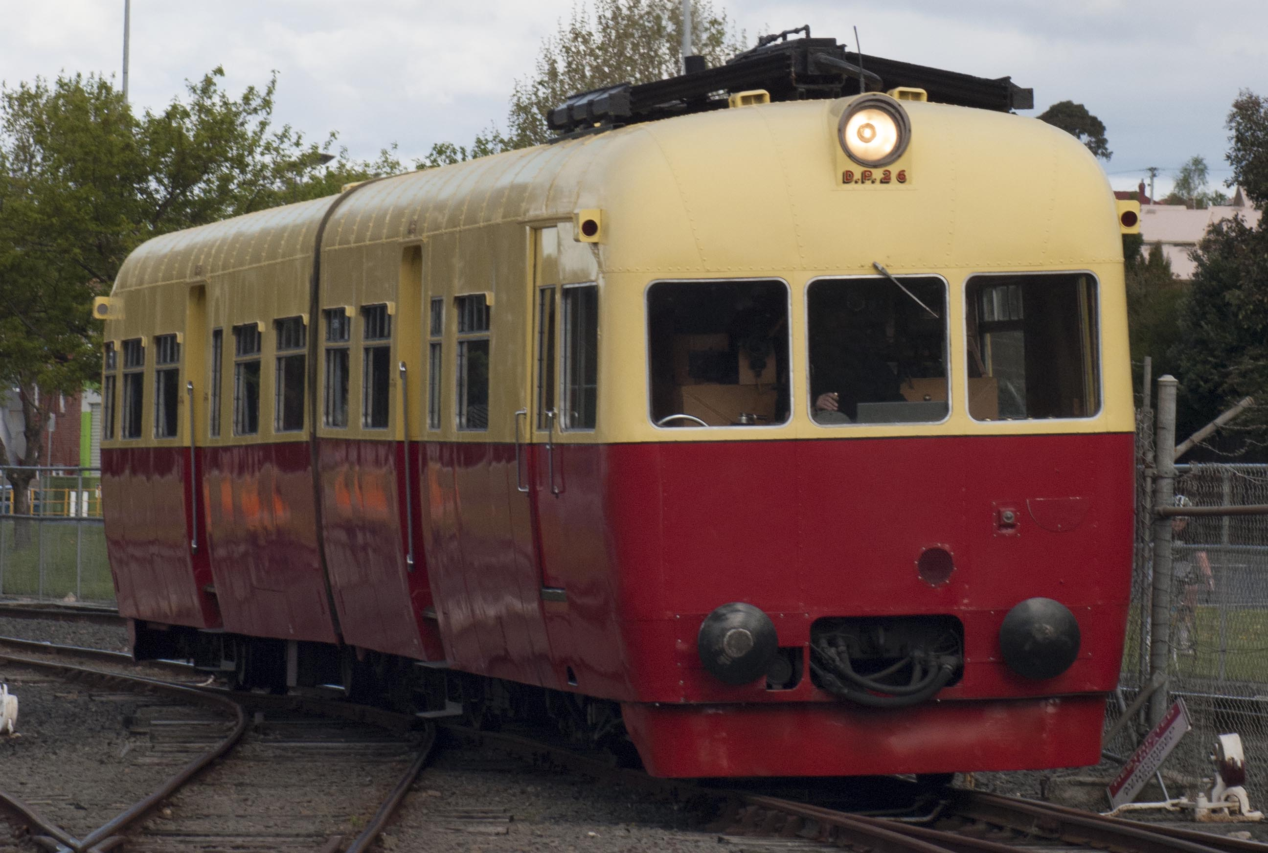 Tasmanian Government Railways DP Class #26, at the Tasmanian Transport Museum, Glenorchy, Tasmania. 7th October 2012